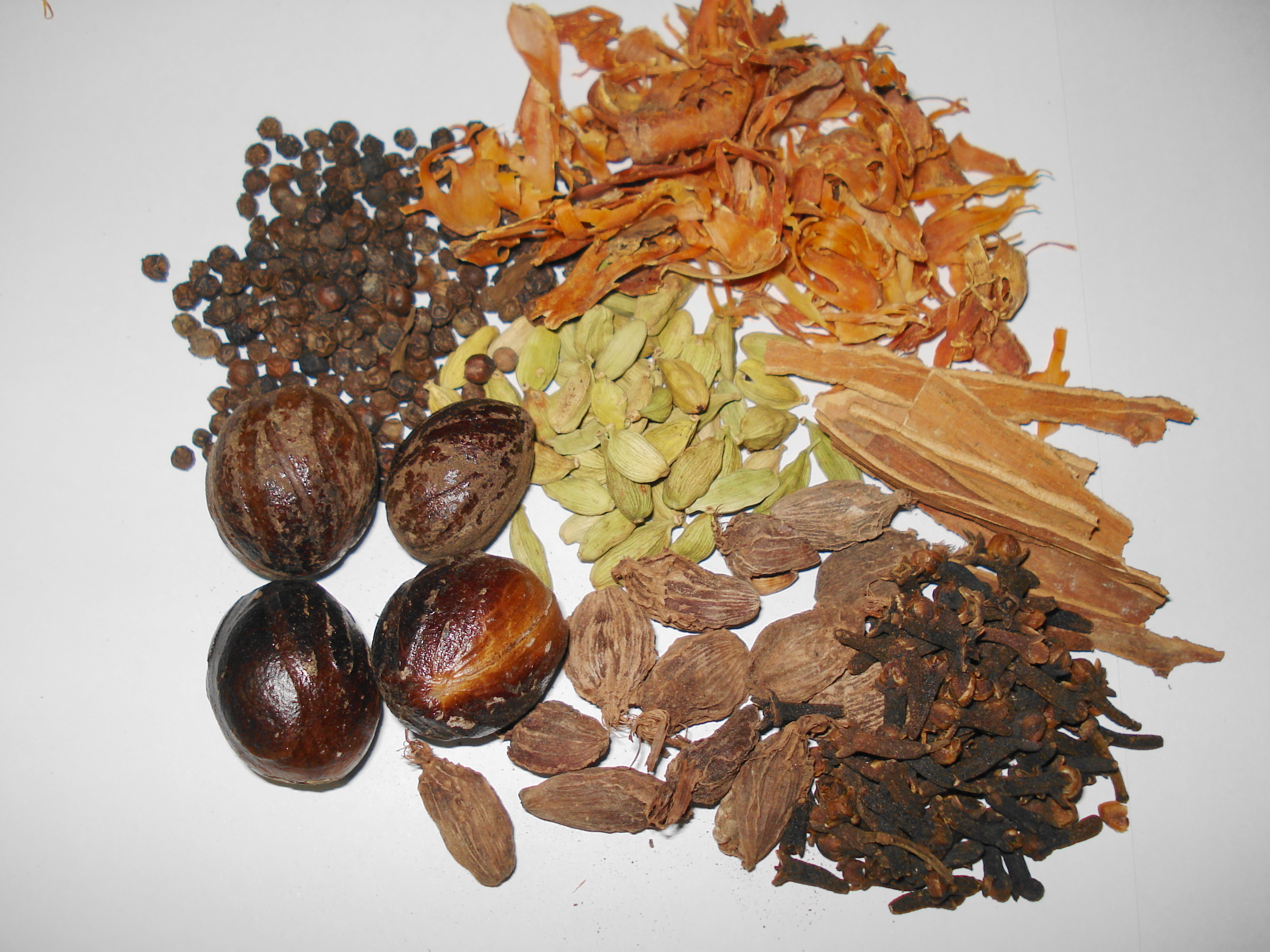 Garam Masala (Hot spices) is a very popular blend of spices in pakistan and india. Brown cardamom, Green Cardamom, Cinnamon, Cloves, Nutmeg , Mace and black pepper are the main ingredients. However cumin seed, caraway and bay leaves are also used. In punjab it is further diluted with coriander powder.